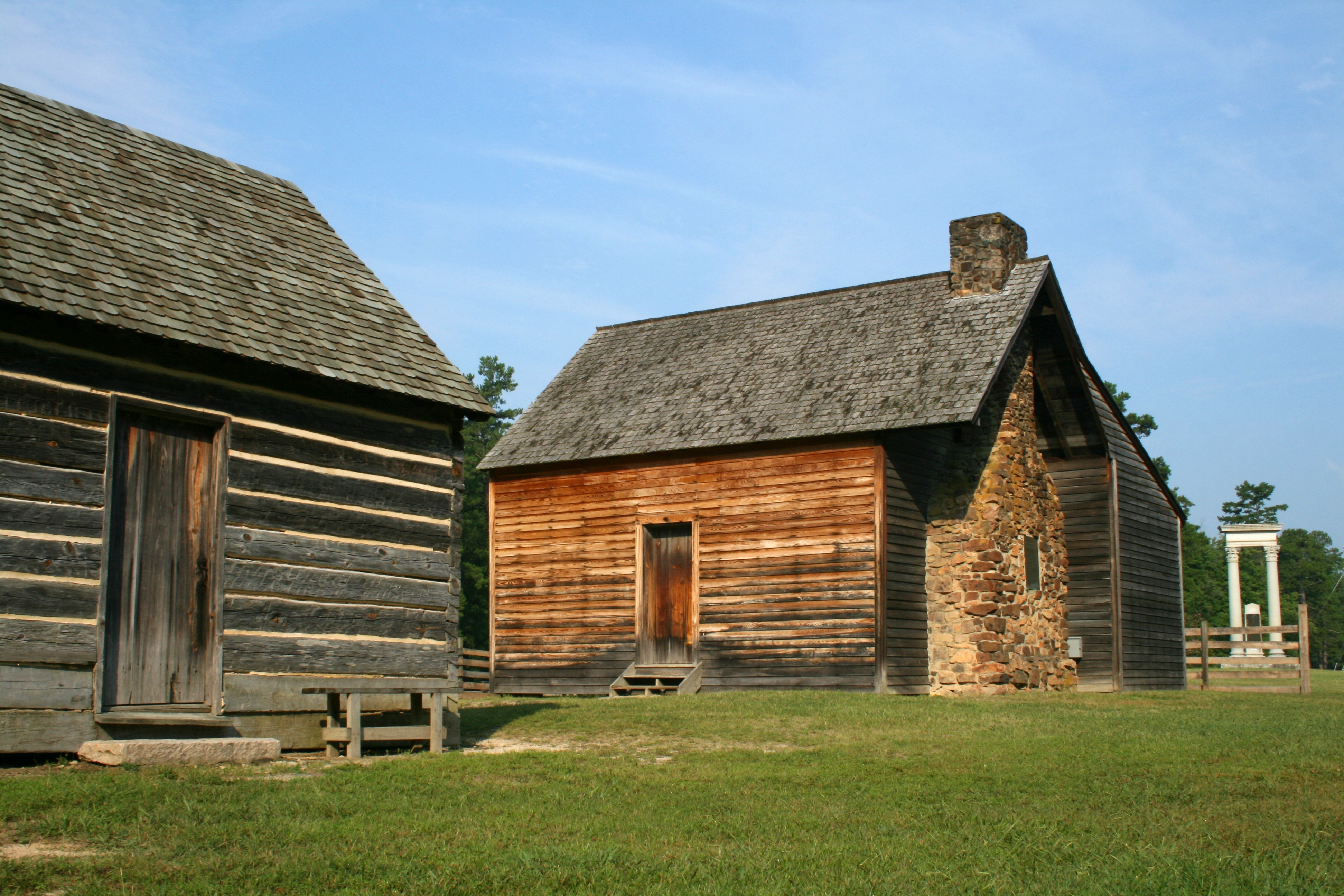 Bennett Place, a carefully reconstructed historic farm in Durham, North Carolina, the site of the largest surrender of Confederate soldiers during the American Civil War on April 26, 1865. Showing, from left to right, the kitchen, the farmhouse, and the memorial monument.